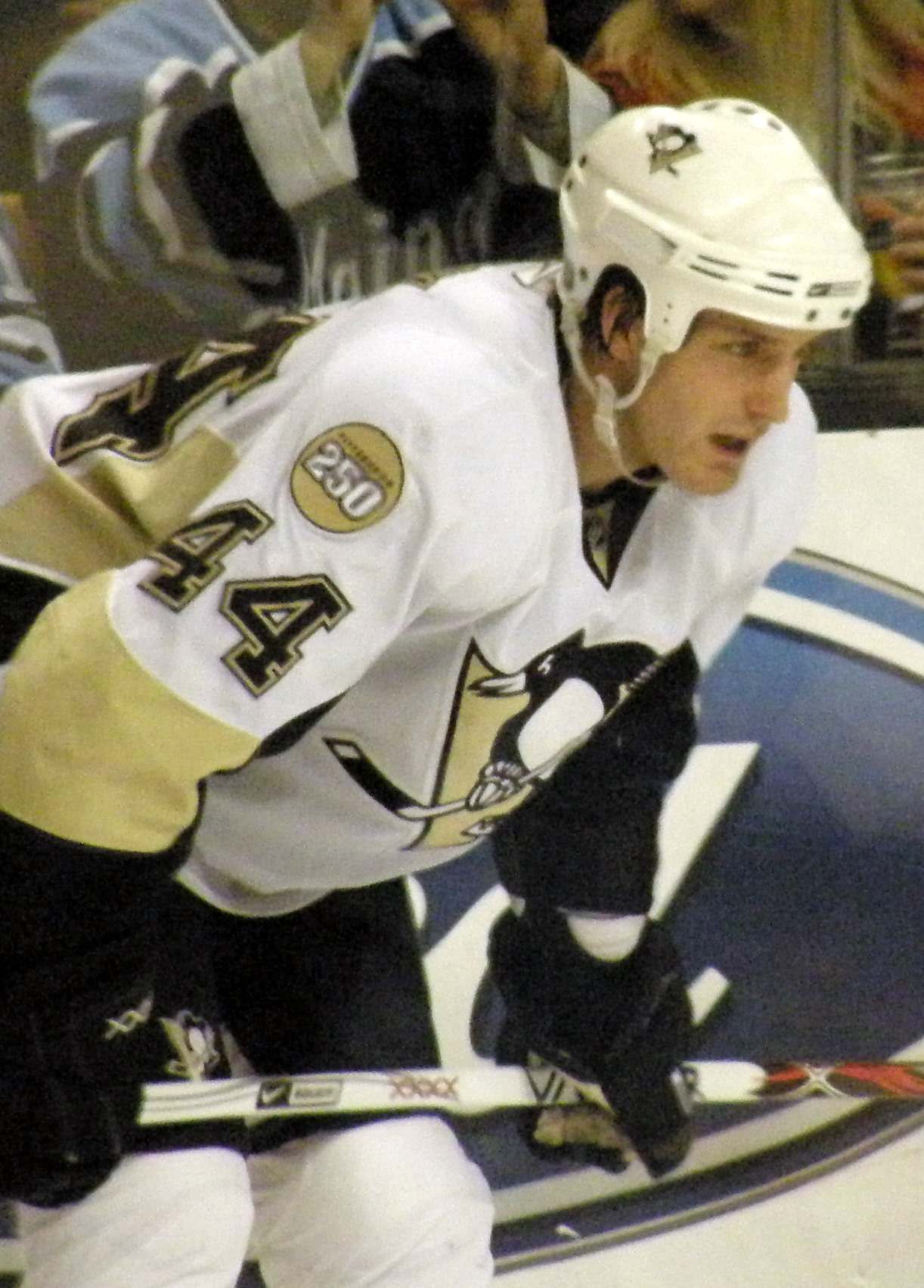 44 Brooks Orpik